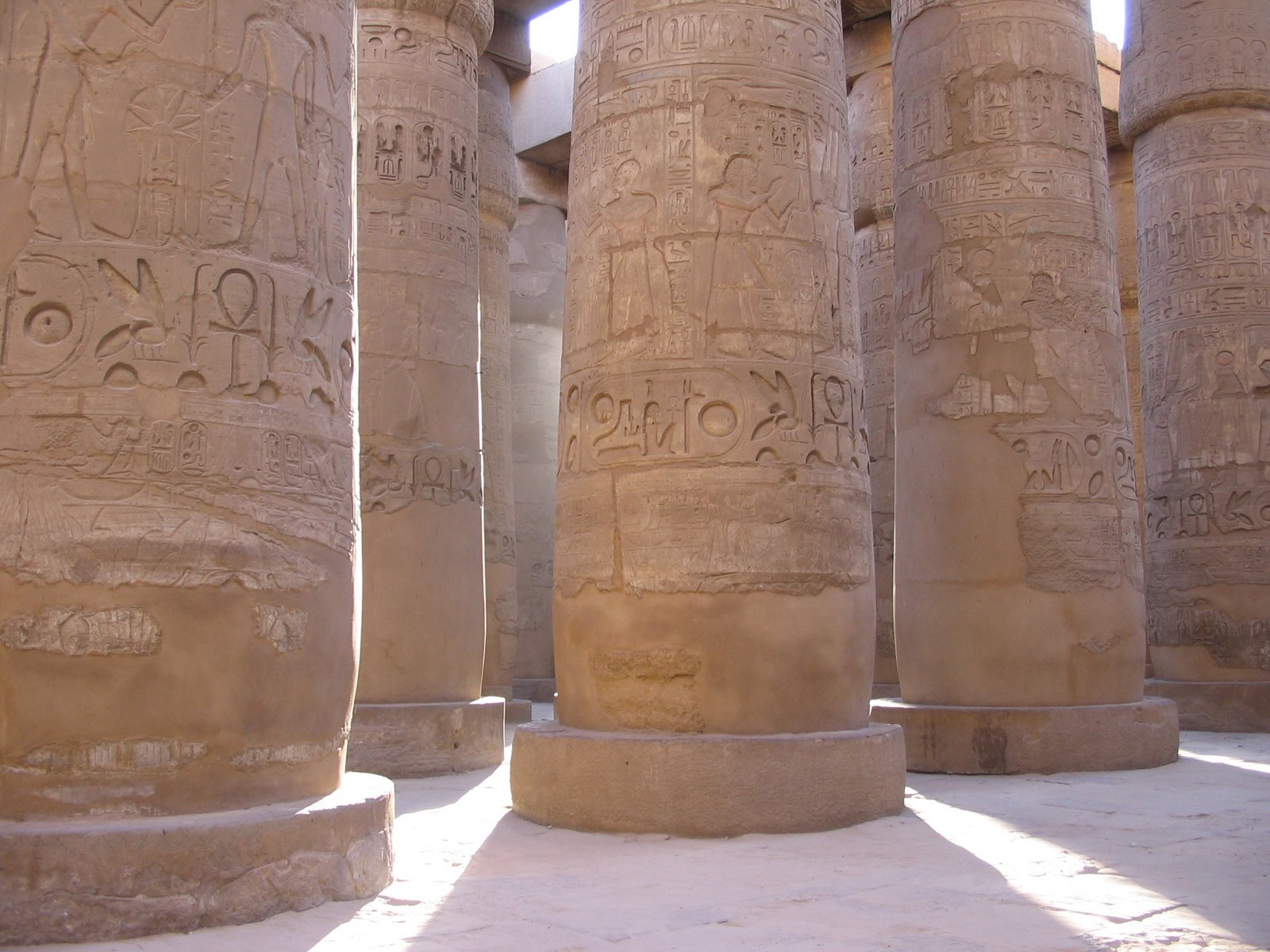 Great Hypostyle Hall, Karnak